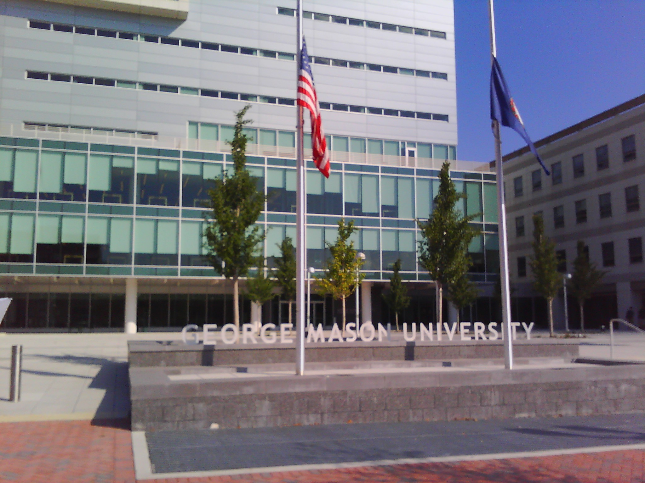 Founders Hall - School of Public Policy